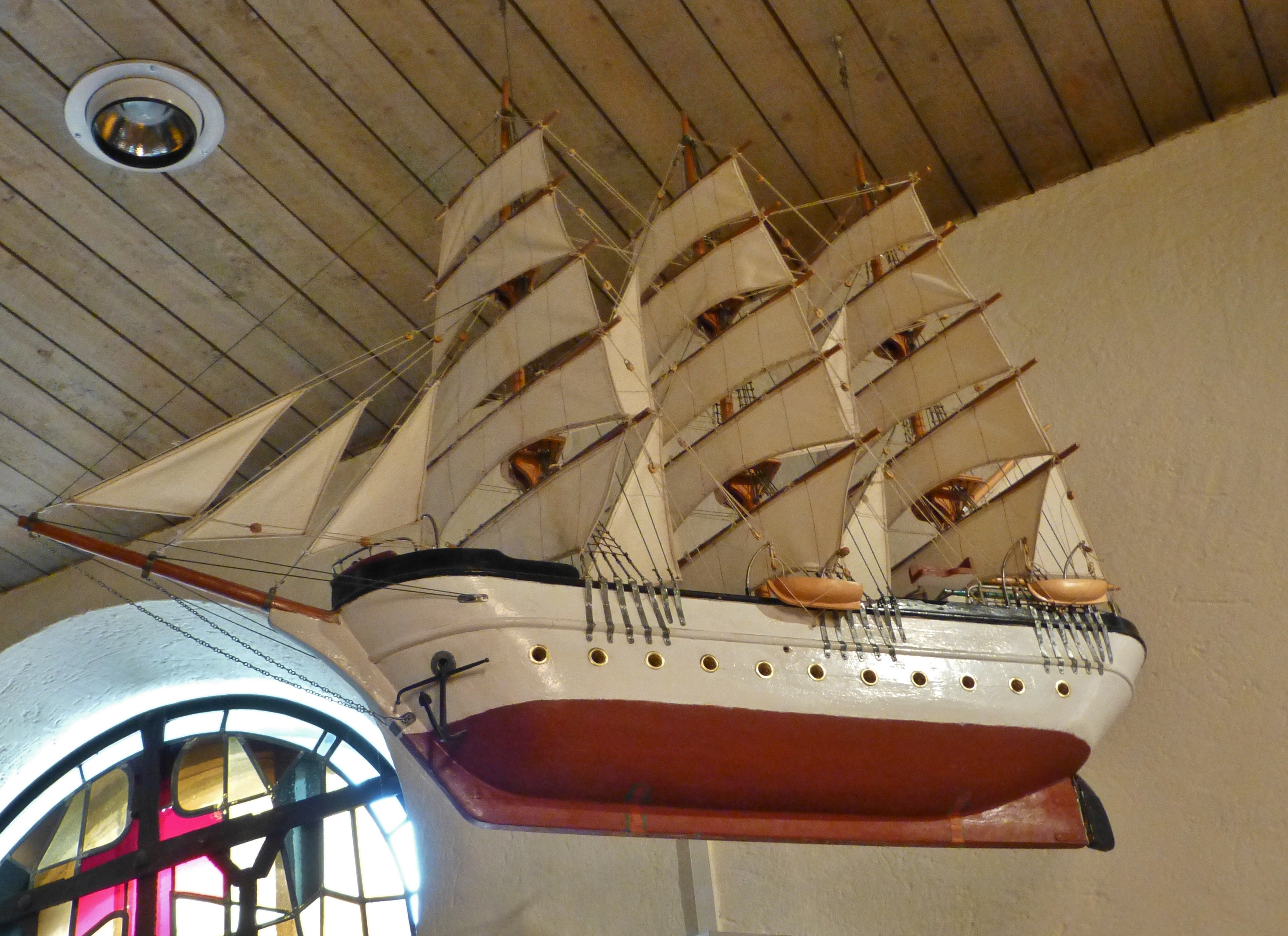 Borgholm Church.Votive ship in the form of a full-rigged performed by Emil Johansson and Axel Jansson.Gave to church 1960.